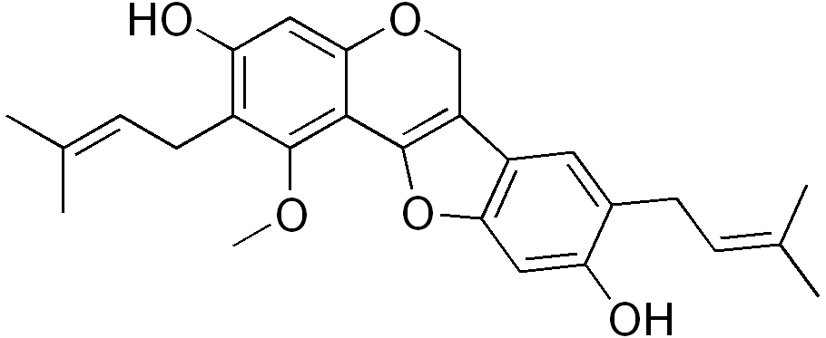 chemical structure of glycyrrhizol A